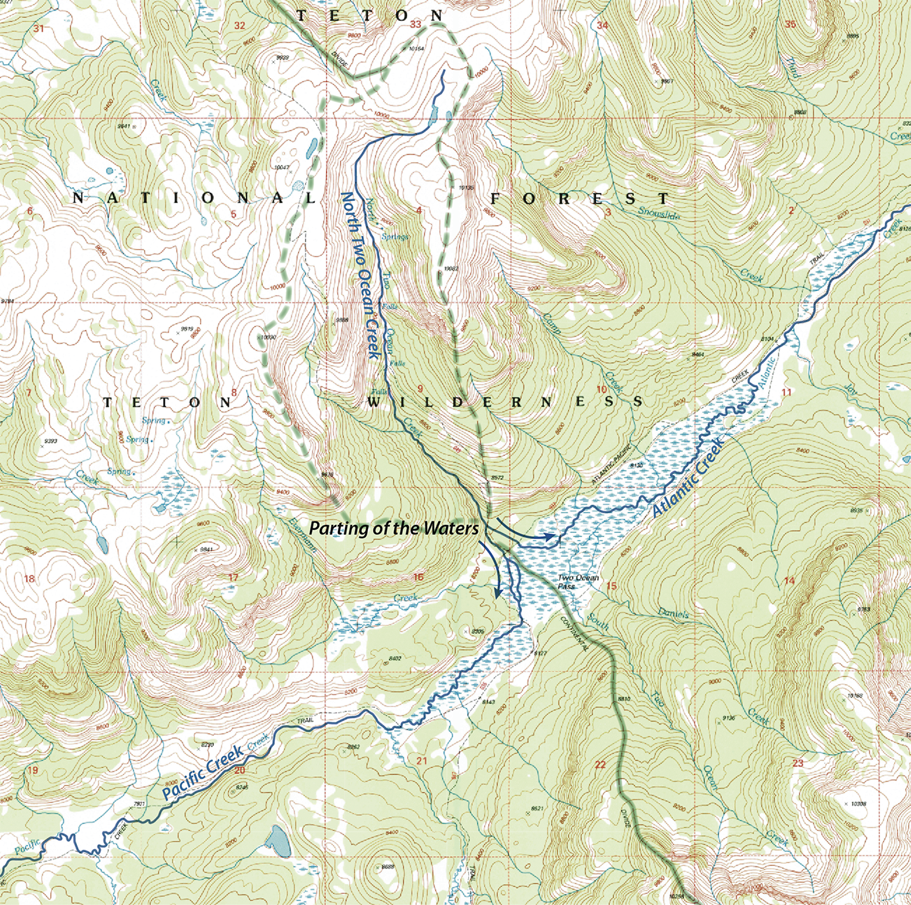 Crop from USGS map “Two Ocean Pass, WY” (1:24,000), the Great Divide in green